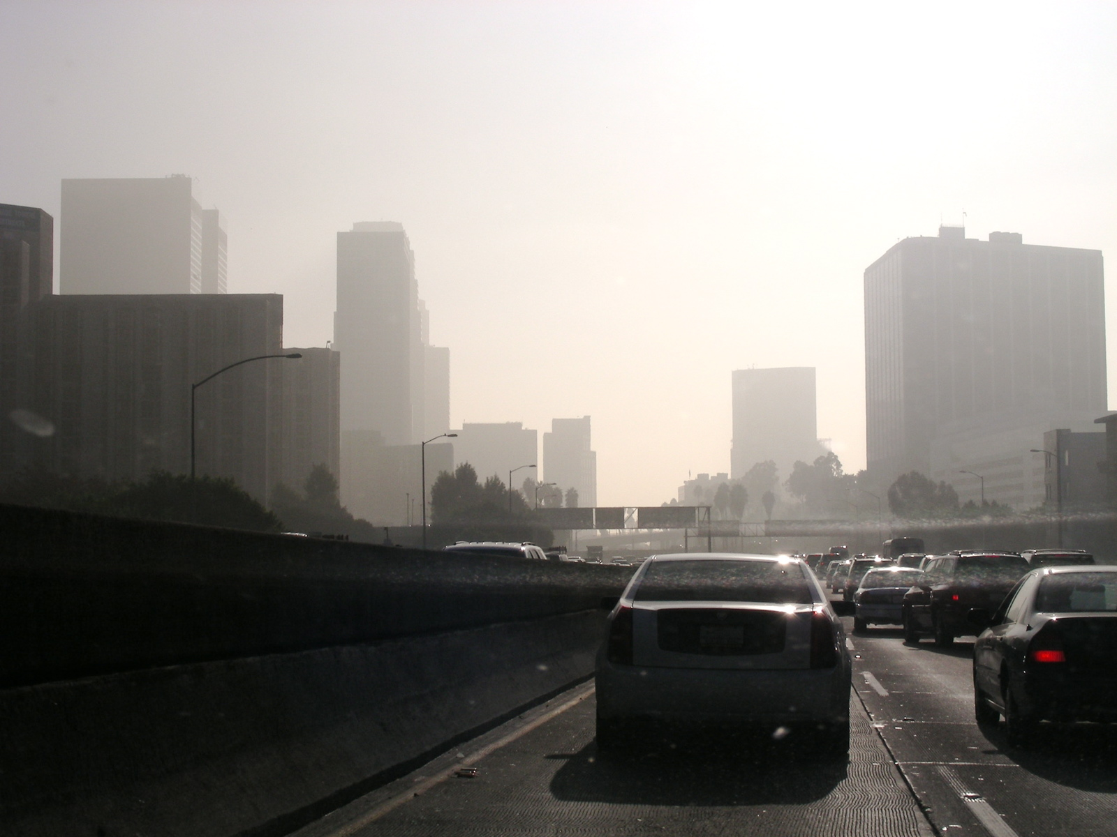 Smog and air pollution in Pasadena Highway, downtown Los Angeles